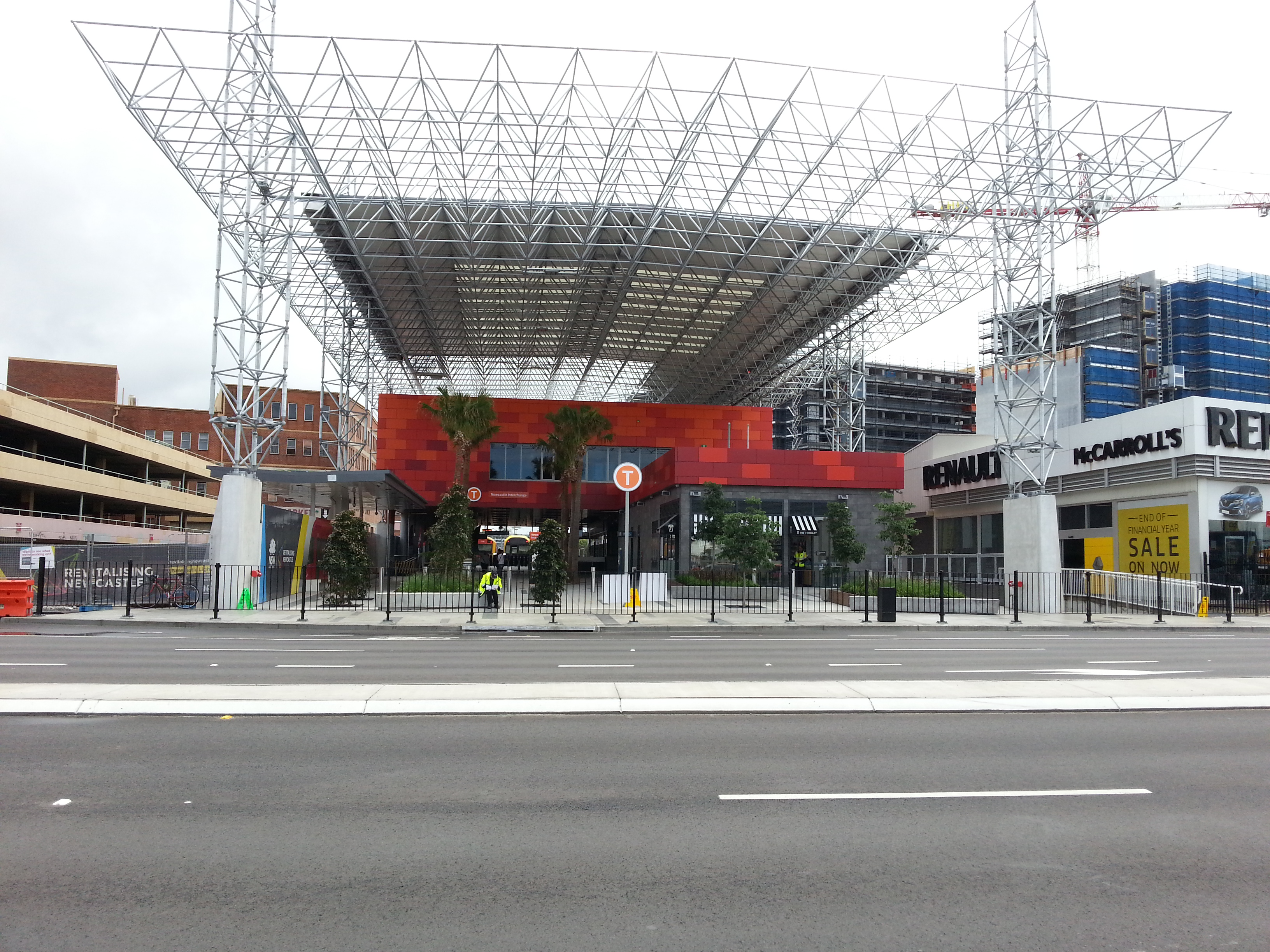 A Picture of the Newcastle Interchange railway station taken from Stewart Street. The railway portion is completed however the light rail will not be completed until 2019